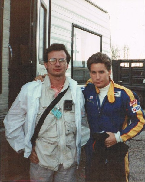 Filmed in 1991 at the Atlanta Speedway, this was one of the many scenes starring Mick Jagger, Emilio Estevez, David Joanson, and Sir Anthony Hopkins